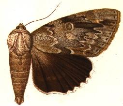 PLATE CXCIII.